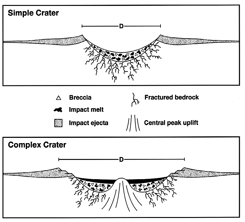 NASA image of simple and complex crater structure. The caption read, "As shown in the above diagram, the main difference between the simple crater and the complex crater, is that the complex crater exhibits central peak uplift in the center of the crater."